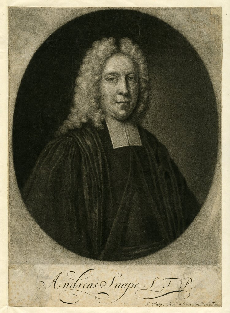 Portrait of Andrew Snape (1675–1742), English churchman and academic.